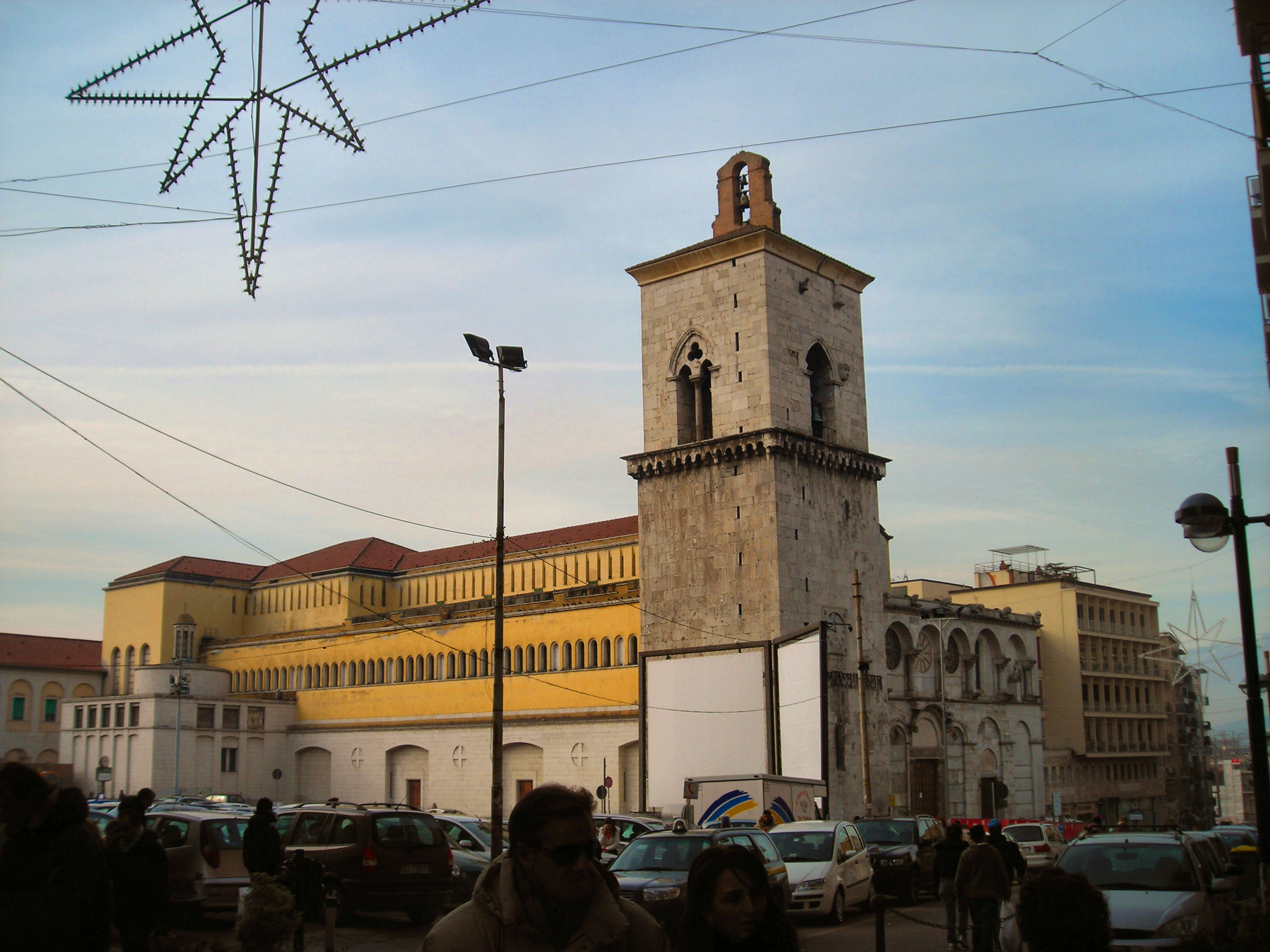 The Cathedral of Benevento